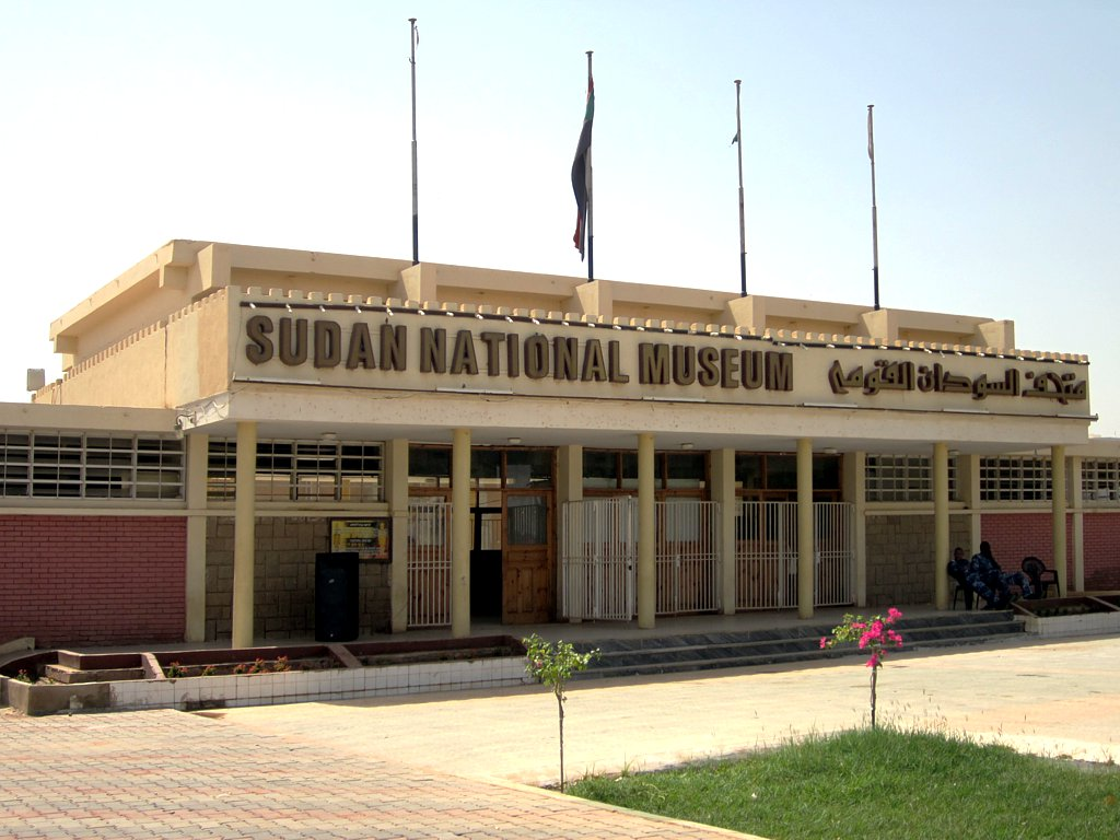 The Sudan National Museum at Khartoum, Sudan, was founded in 1971. The collection showcases archaeology downstairs and early Christian frescoes upstairs.